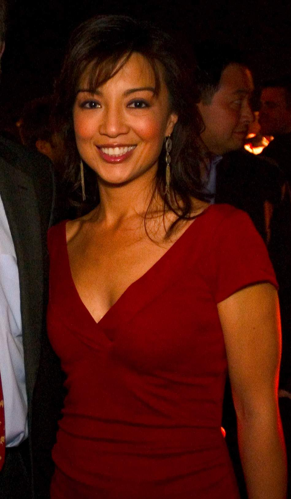 Based on the photo Ming-Na.